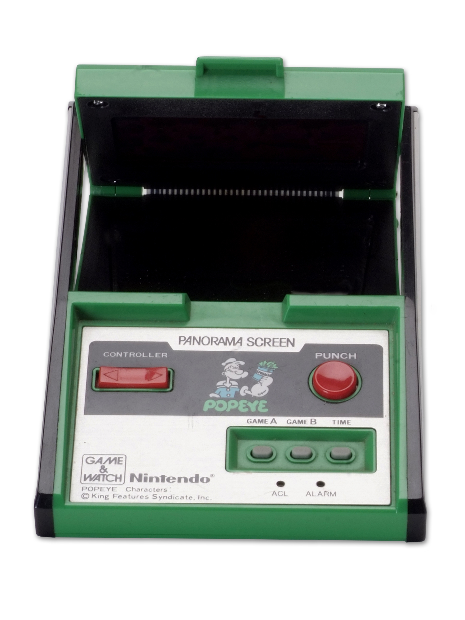 B-80-00347. Nintendo Game & watch - Popeye in the Panorama serie. Code PG-92.